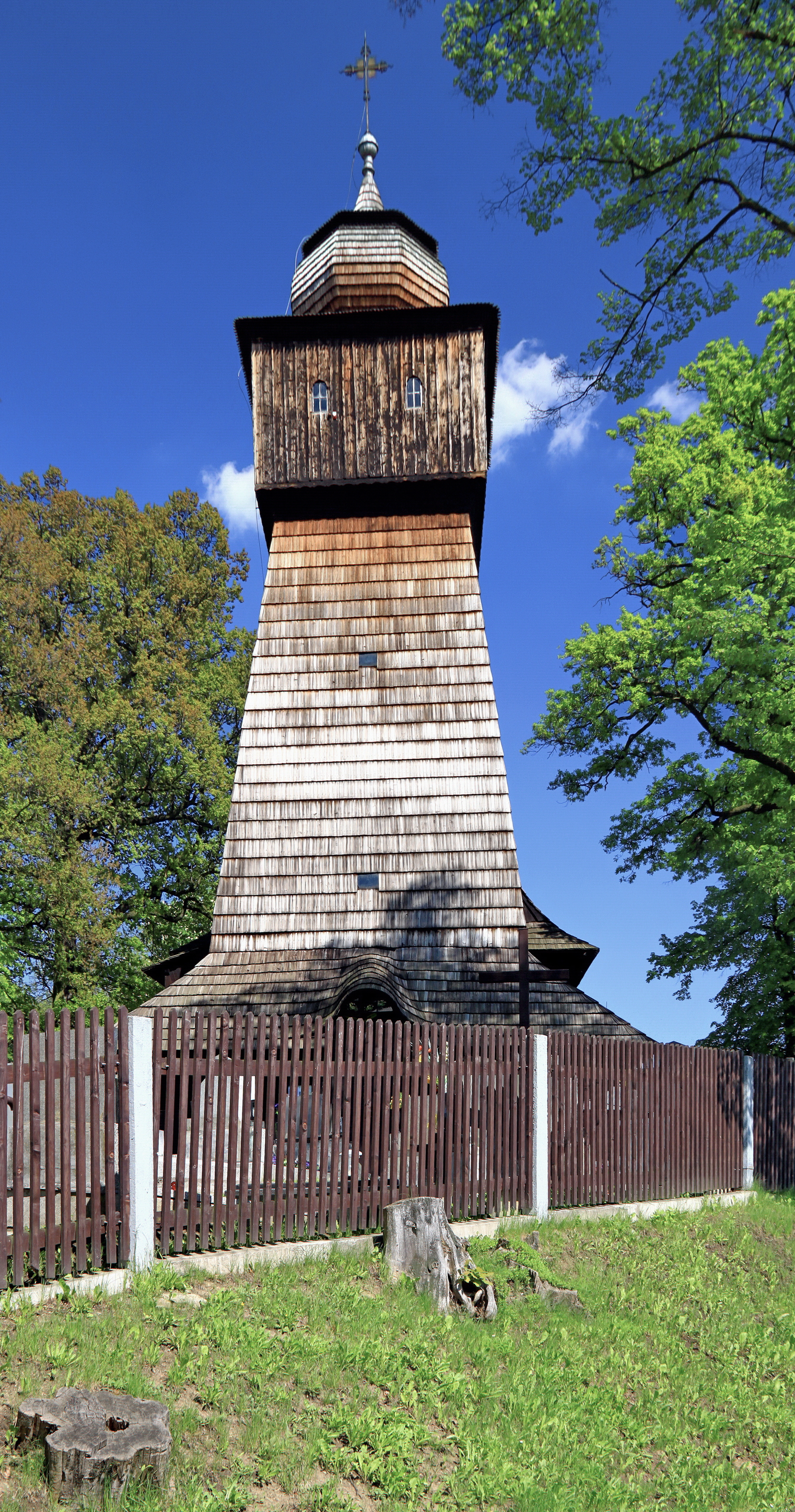 Church of Ascension of Jesus, Dolní Marklovice. Moravian-Silesian Region, Czech Republic.